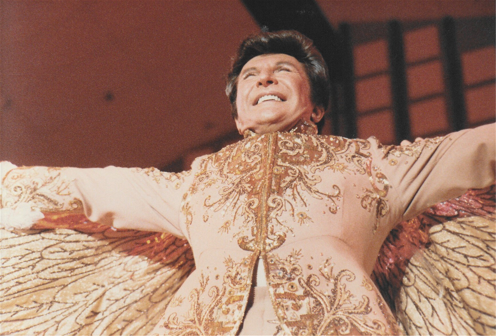 A photo I took of Liberace in 1983.